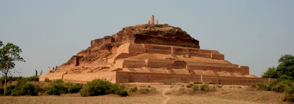 Ahichchhatra (or Ahi-Kshetra) was the ancient capital of Northern Panchala, a northern Indian kingdom mentioned in Mahabharata. The remains of this city has been discovered in Ramnagar, a village situated in Bareilly District in Uttar Pradesh, India